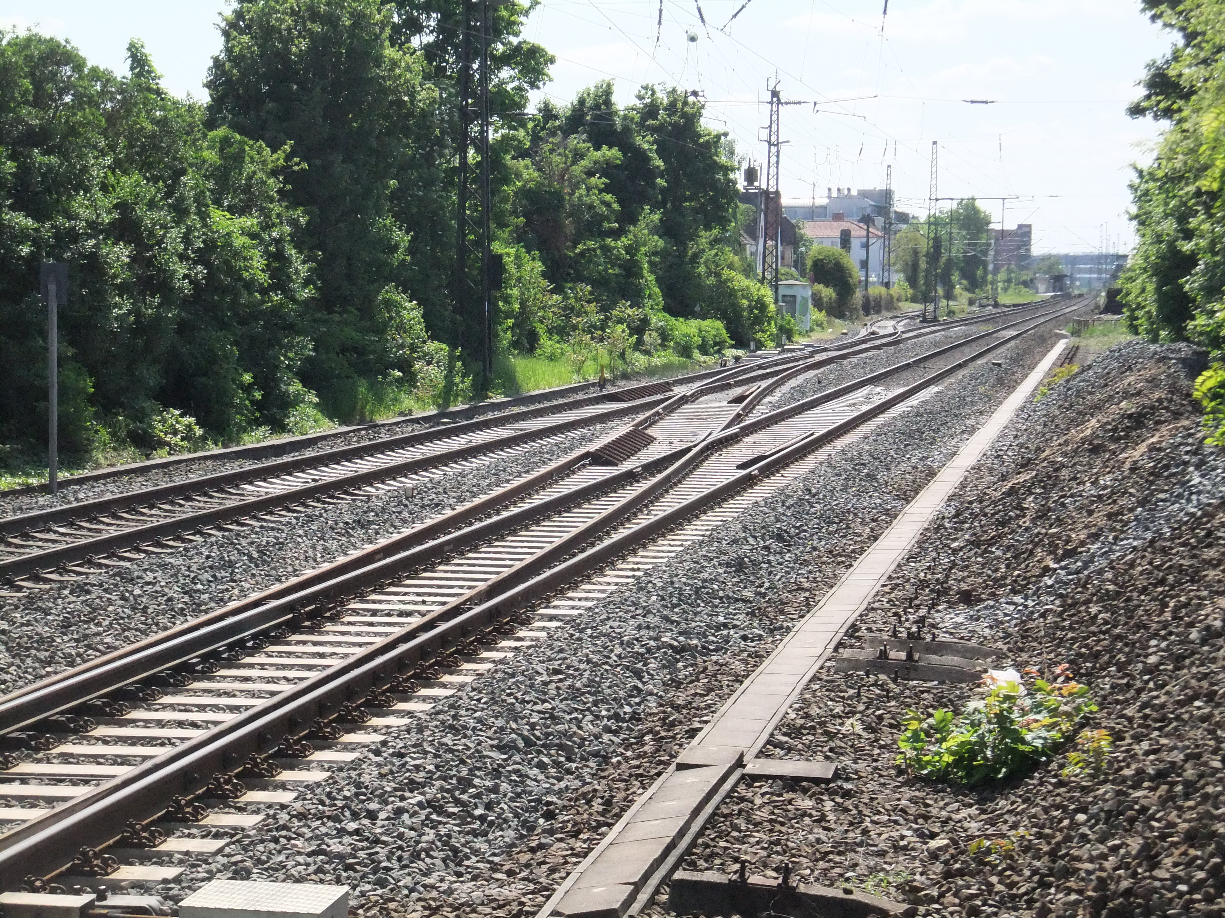 Site of the Rüsselsheim train disaster, 2 February 1990